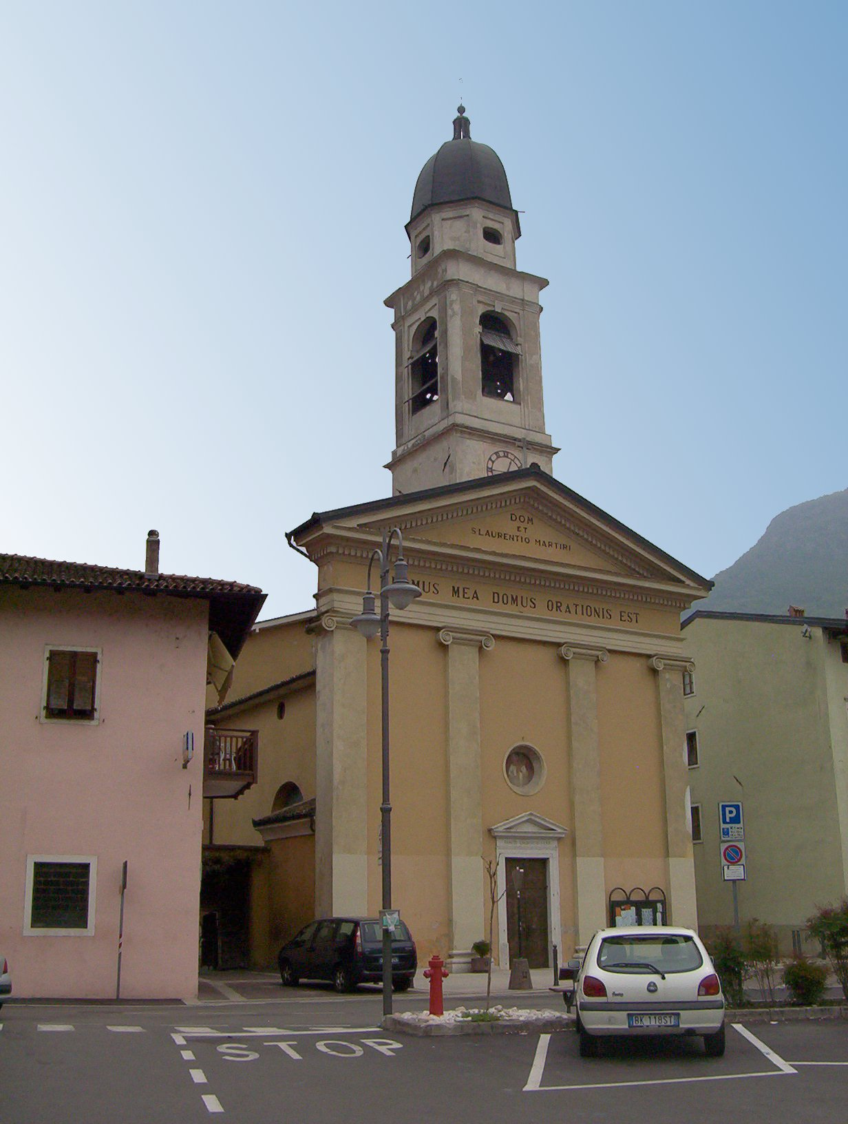 the church of San Lorenzo in Calliano (TN)